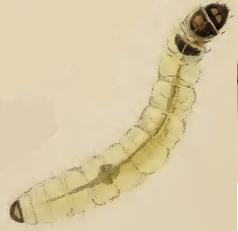 Stainton’s Natural History of the Tineina (1855–1873): Coleophora siccifolia